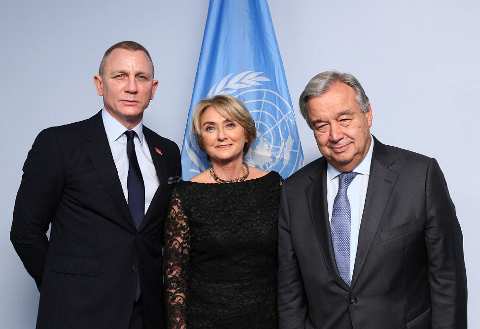 UN Secretary-General António Guterres (right) meets with UNMAS Director Agnès Marcaillou (centre) and UN Global Advocate Daniel Craig (left) on 18th October 2017.